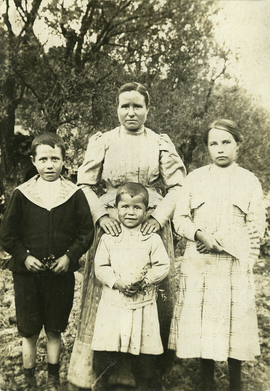 Leandre Cristofol's family. Leandre Cristòfol is the youngest kid in the centre of the picture